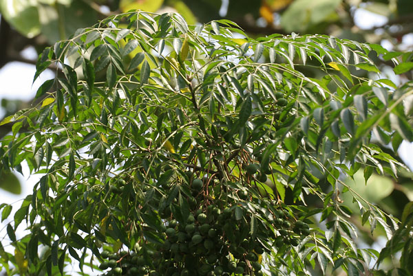 Bakain Melia azedarach in Kolkata, West Bengal, India.